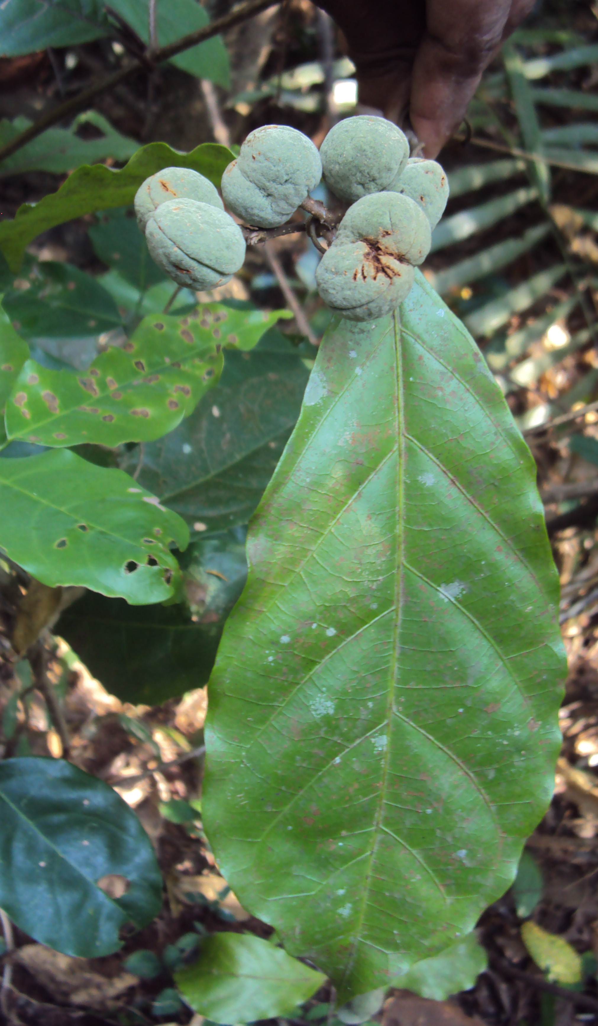 Dichapetalum gelonioides